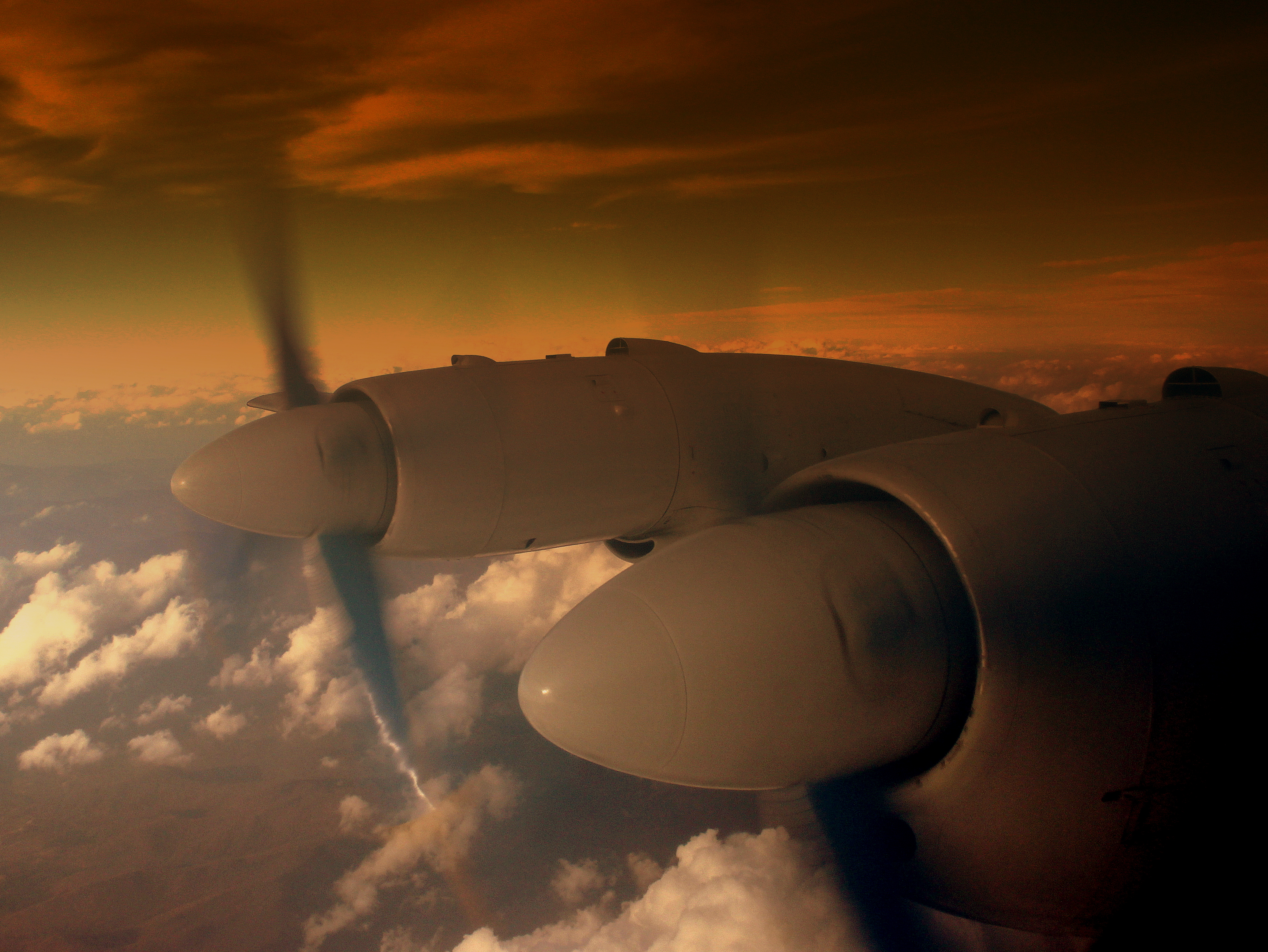 GLORIOUS IL18 VIEW FROM THE RIGHT HAND FORWARD CABIN WINDOWS